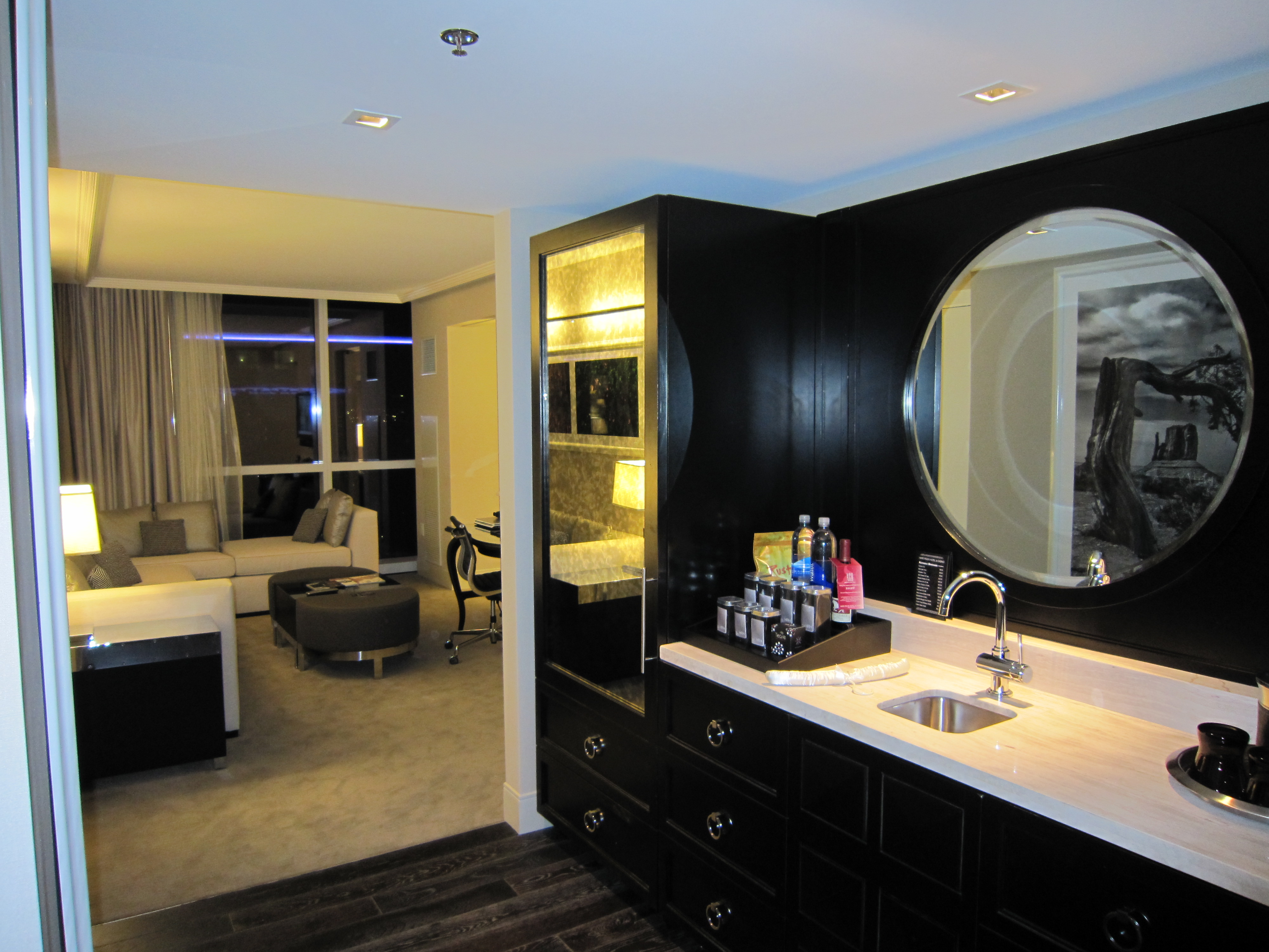 Hotel room in the new HRH Tower, at the Hard Rock Hotel in Las Vegas.